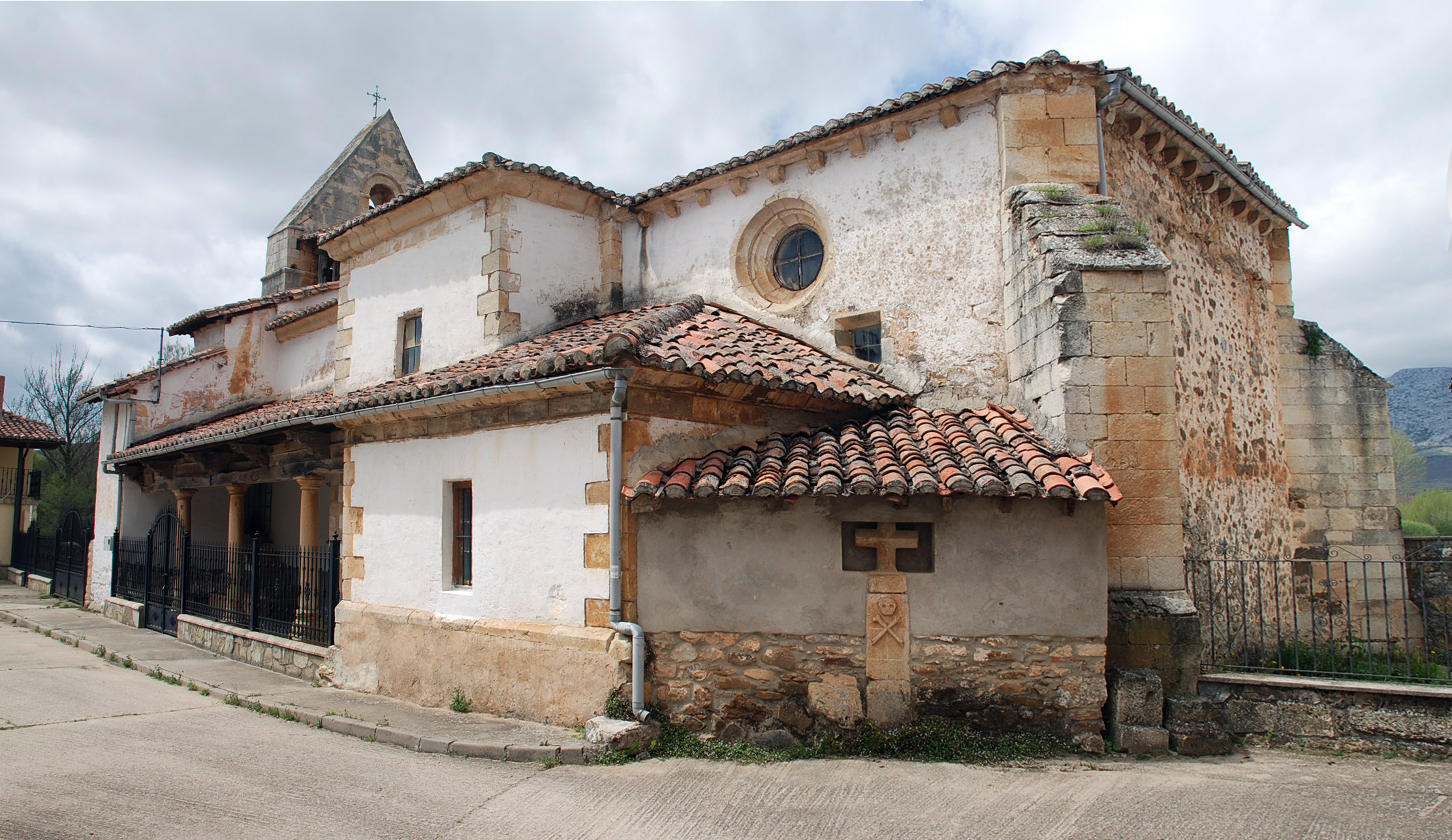 Church of Saint Isidore the Laborer in Viduerna (Palencia, Castile and León). It has a triangular Romanesque belfry. A single nave with Latin cross plan. Excellent baptismal font of the s. XVIII.